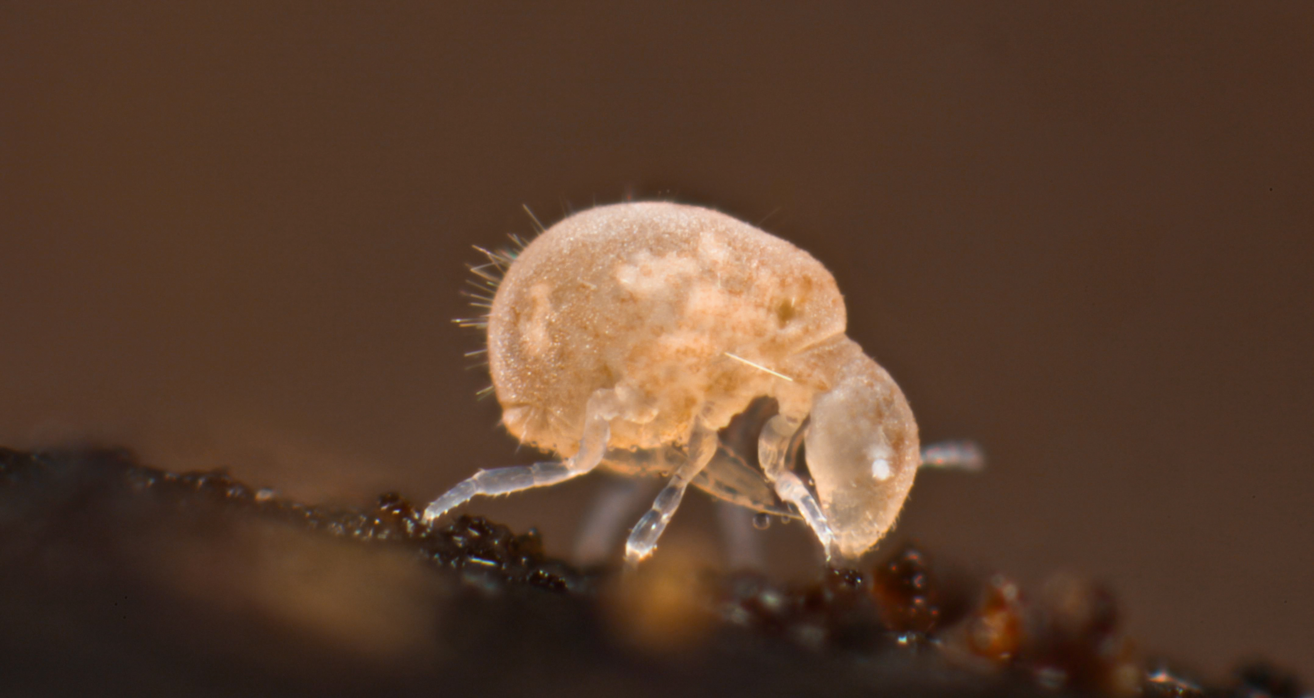 Neelus murinus from East Pennard, England, United Kingdom.